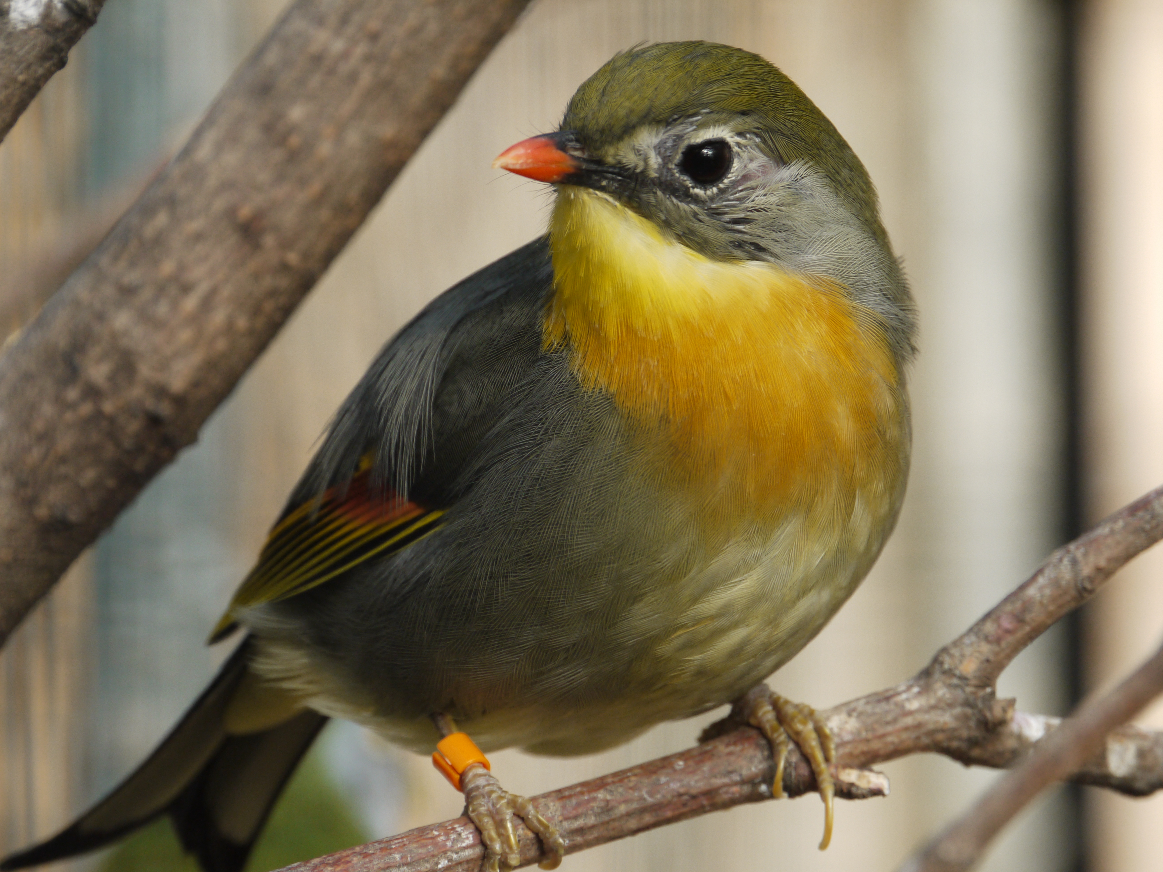 Red-billed Leiothrix